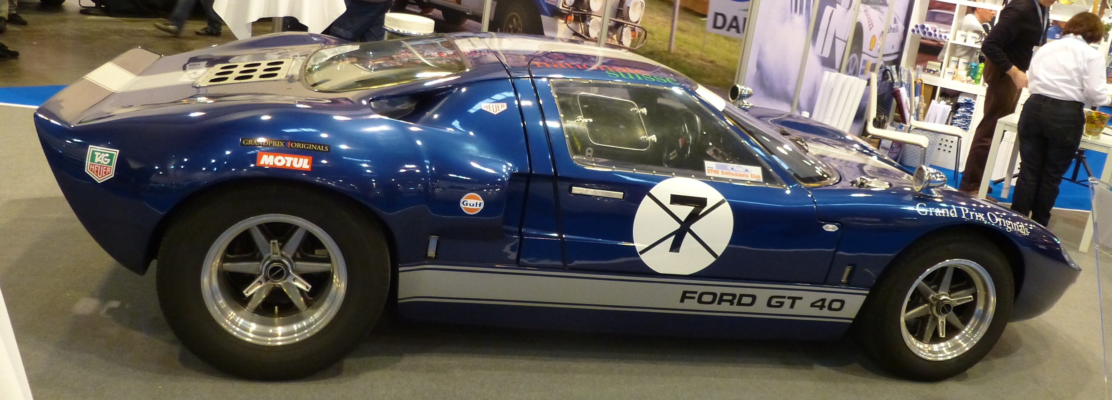 CAV